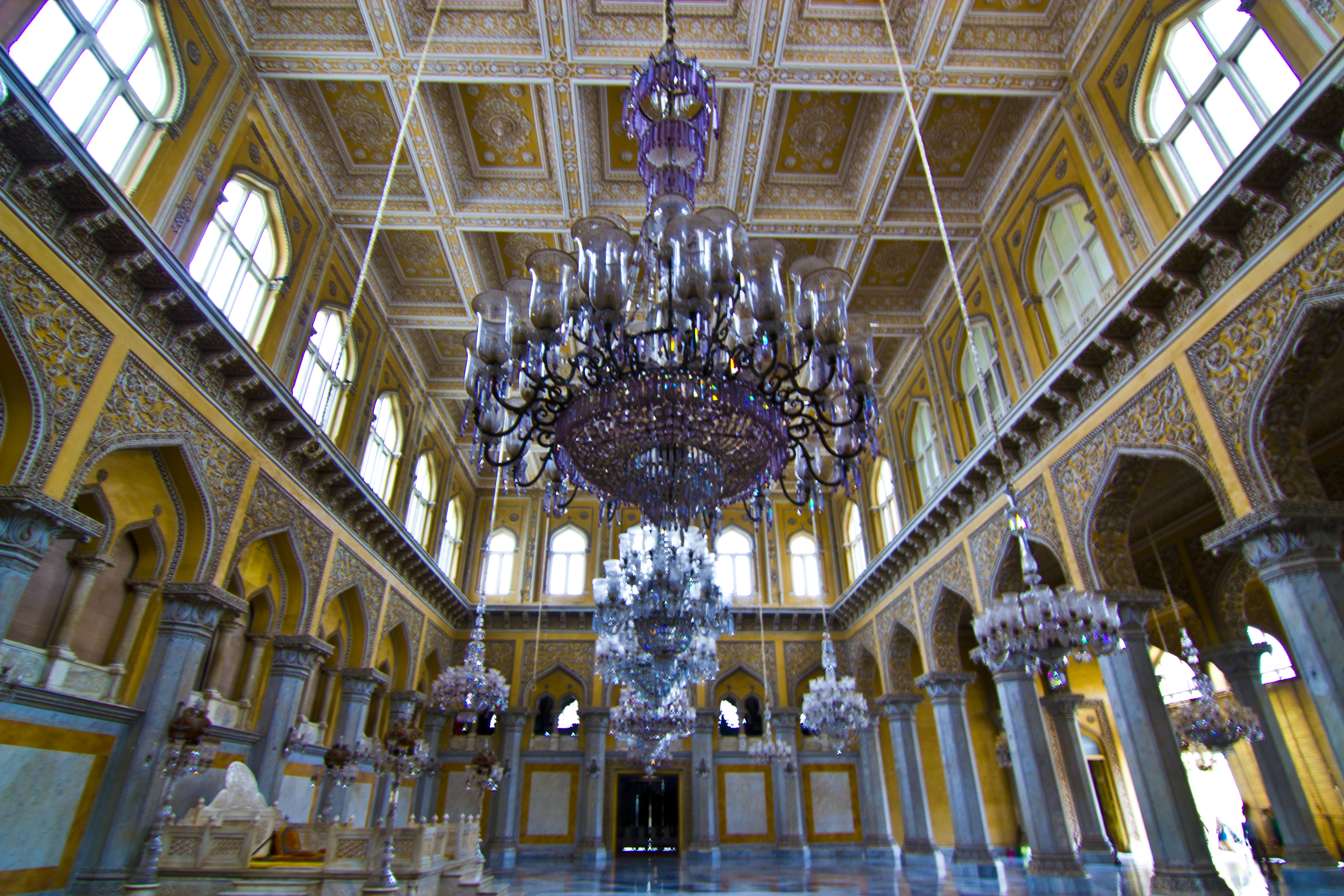 View of Chowmallah Palace